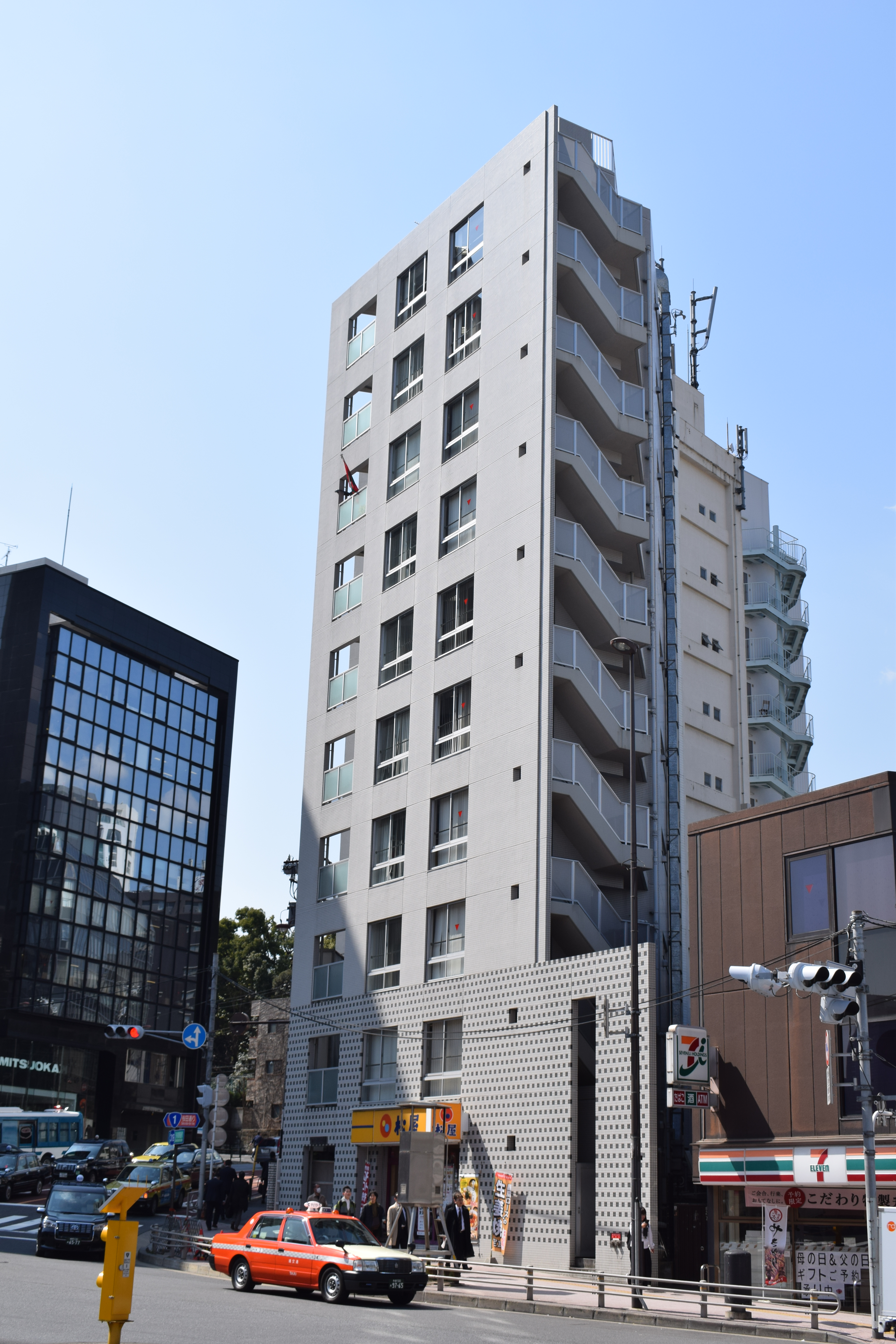 Iikura IT Building, which hosts the Embassy of Maldives and the Embassy of Tonga in Tokyo, Japan